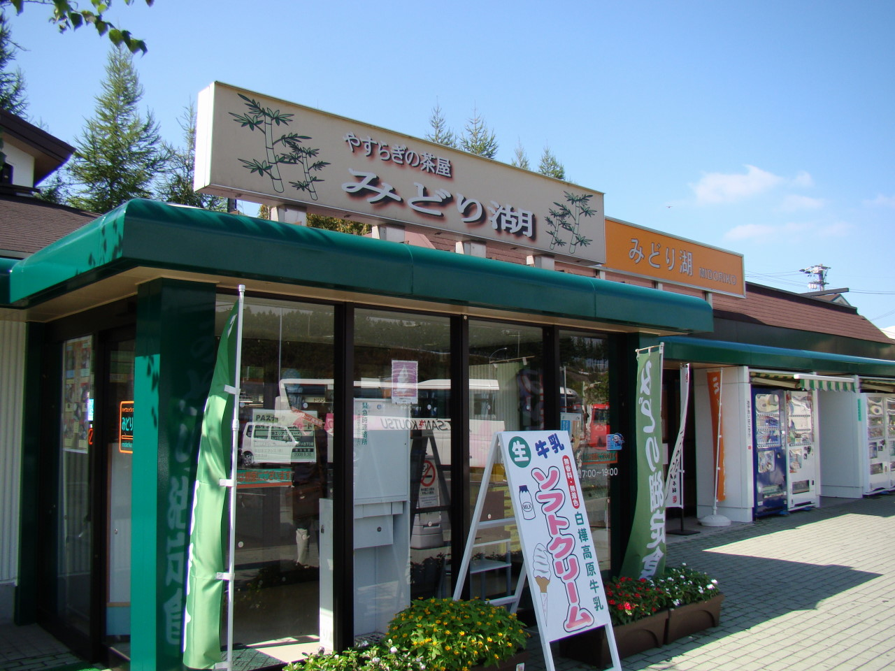 Nagano expressway Midoriko parking area Koshoku side Nagano Japan